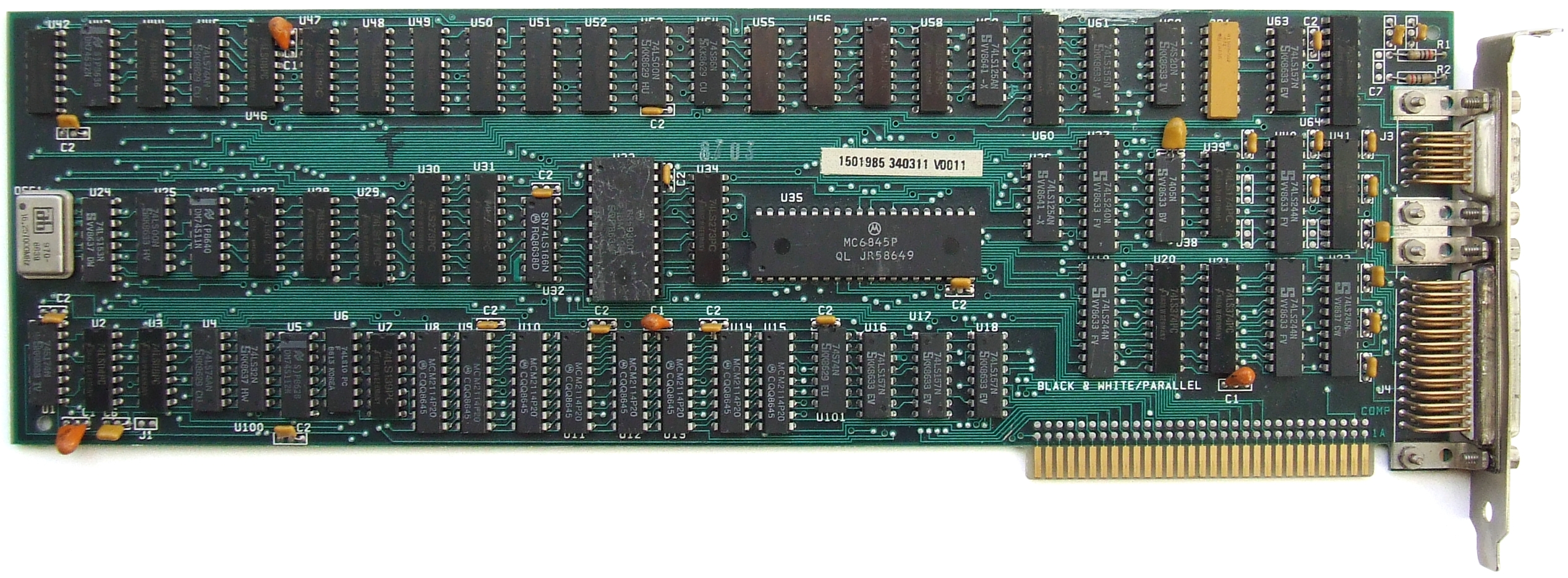 IBM Monochrome Display Adapter (4 KB) based on the Motorola MC6845P video address generator.